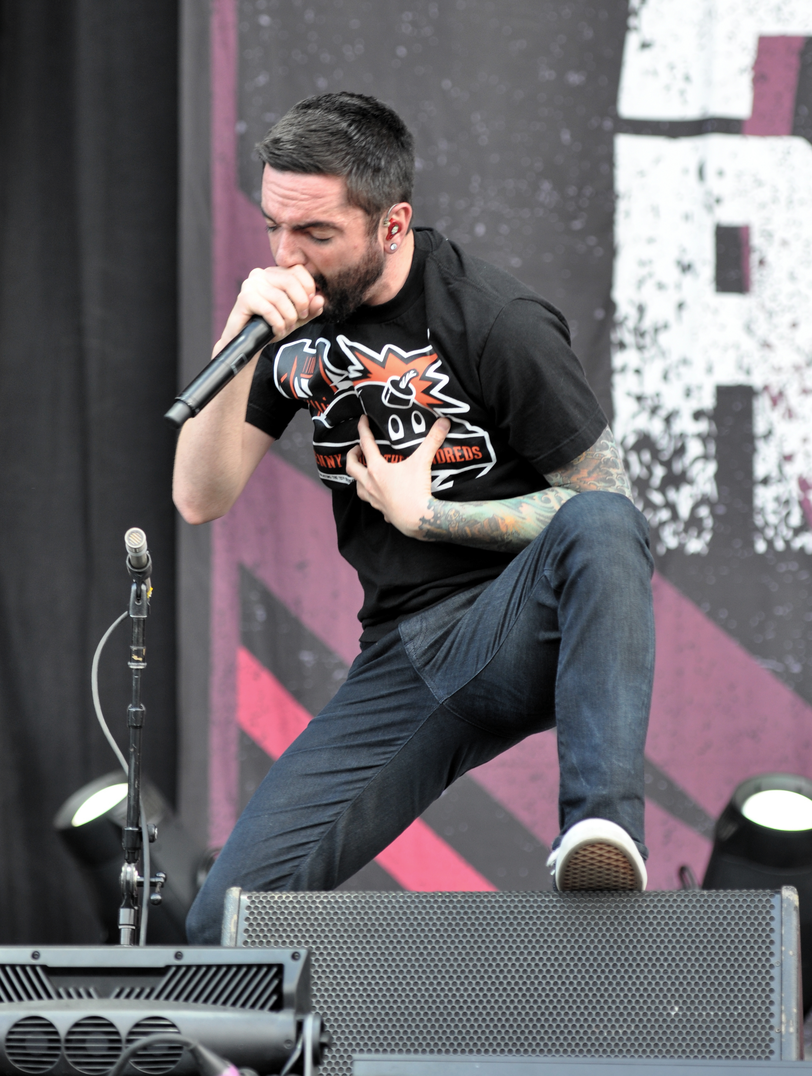 A Day to Remember at Rock am Ring 2013